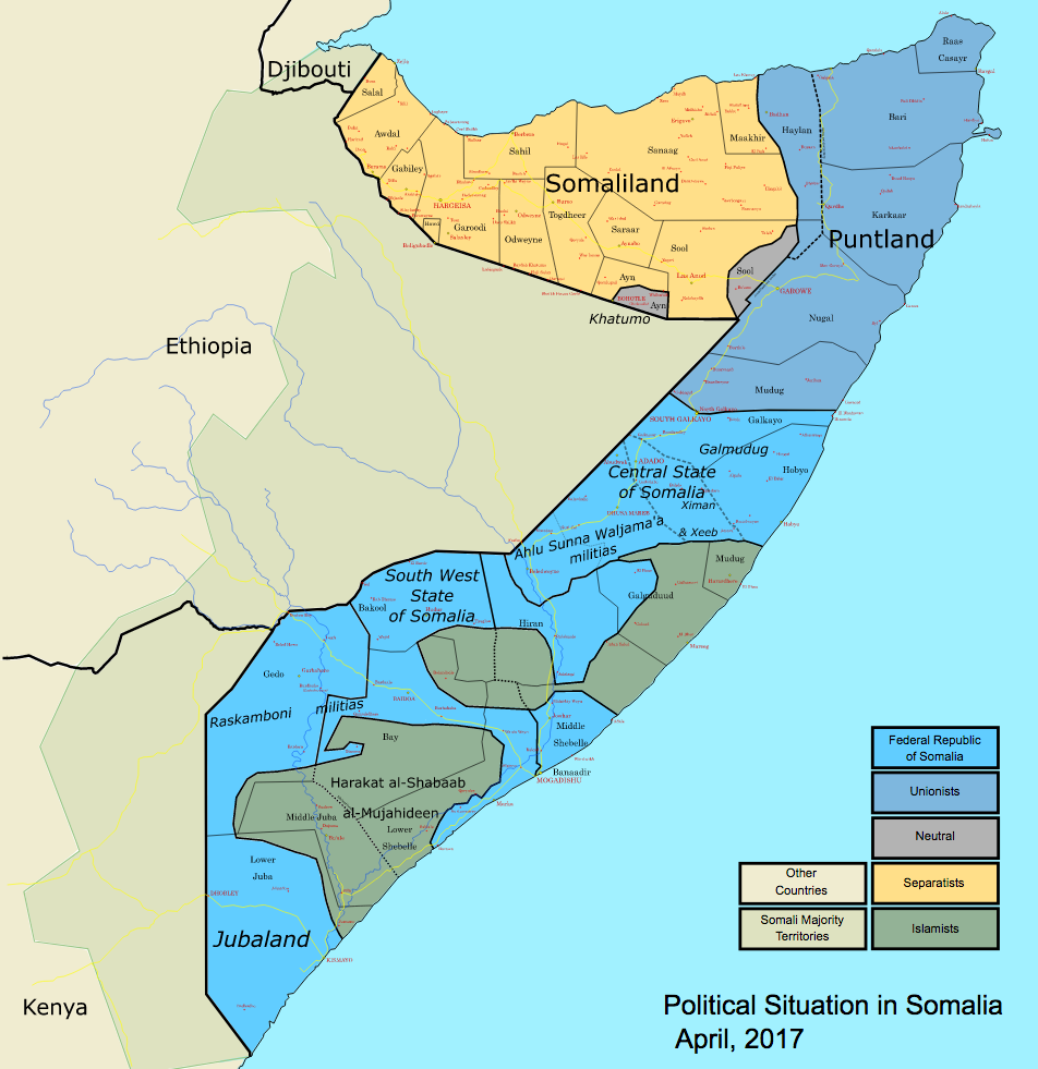 This map shows the states, regions, and districts of Somalia, as well as the current situation in Somalia.